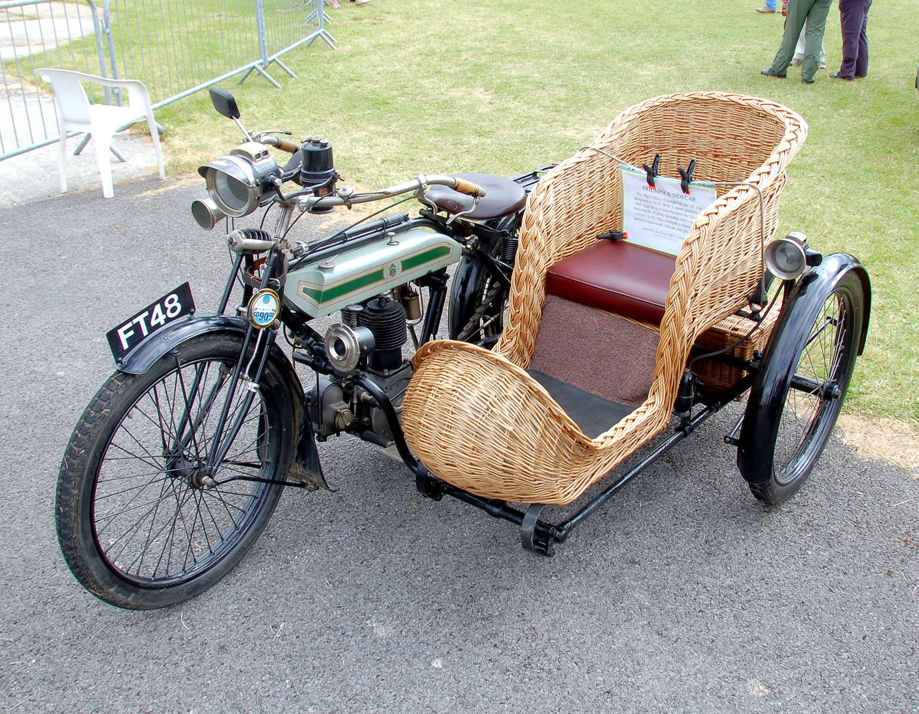 Triumph Model H motorcyle on display at Kemble Air Day 2009, Kemble, Gloucestershire, England. The placard reads - “Triumph and Sidecar: the 4hp (550cc) Triumph Model “H” was designed in 1914. With 3-speed gearbox and belt final drive it soon became the favorite motorcycle of army despatch-riders in WW1 (1914-1918). This example is fitted with a period wickerwork sidecar and gas lighting.” Note: I can't tell from that wording the exact date of this bike nor whether the wickerwork is genuine (it looks new). Photographed by Adrian Pingstone on 21st June 2009 and placed in the public domain.